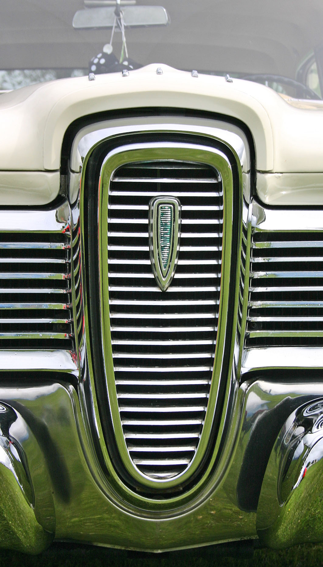 The simplified 'Horseshoe' grille for the 1959 Edsel range found on an Edsel Ranger. The green badge in the centre is known to some as 'The Pickle'